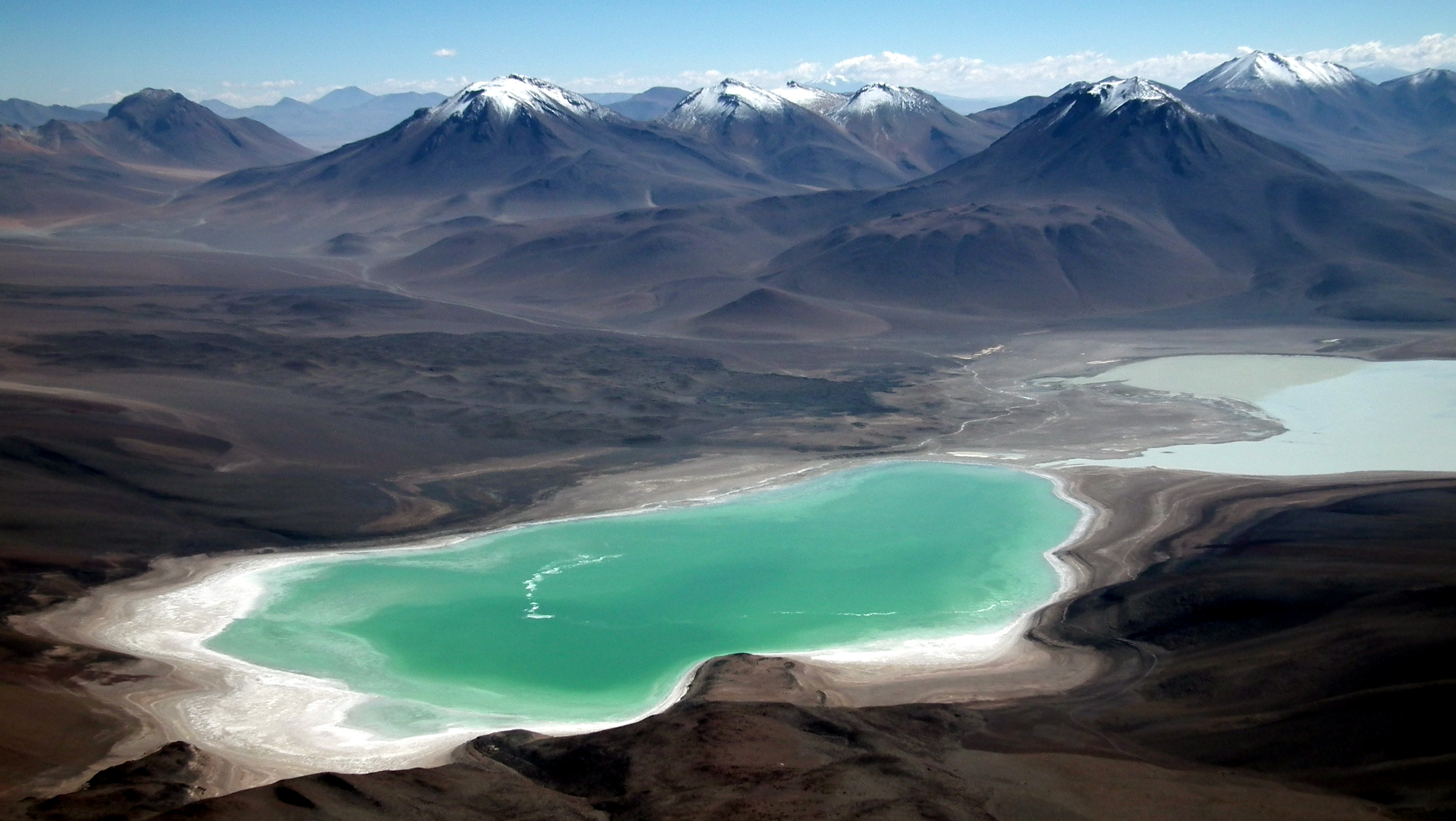 Laguna Verde and Laguna Blanca as seen from the summit of the Licancabur volcano.